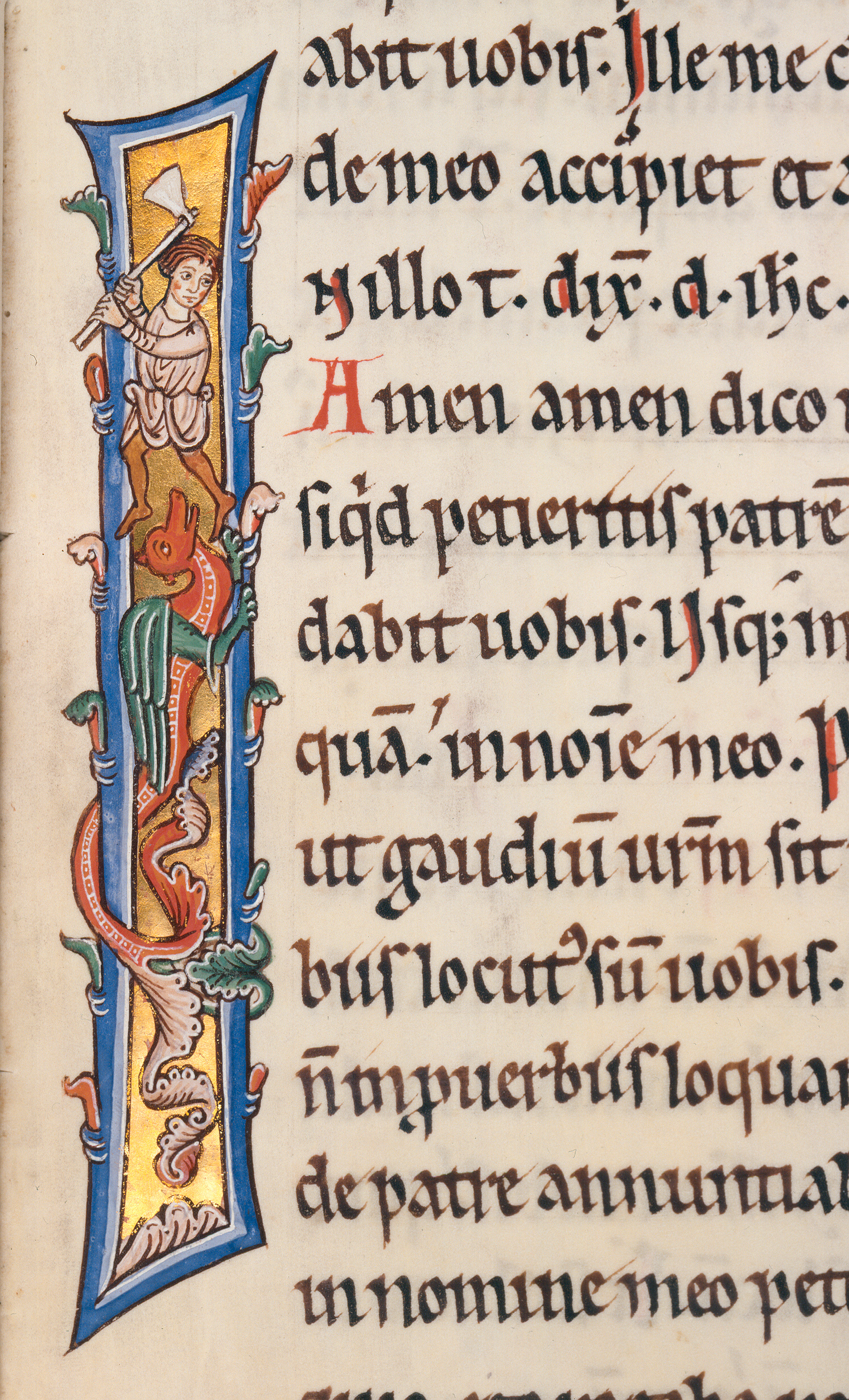 Evangelistar von Speyer, um 1220 Manuscript in the Badische Landesbibliothek, Karlsruhe, Germany Detail from Cod. Bruchsal 1, Bl. 40r